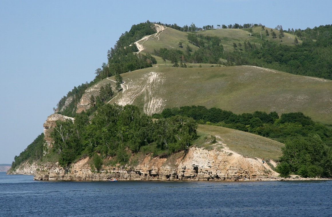 Molodetsky Kurgan, Samara region, Russia